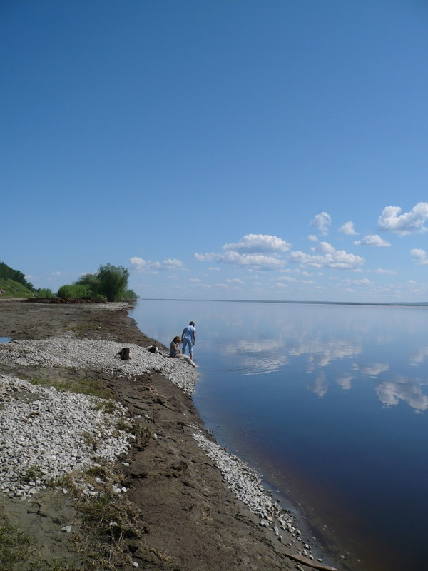 "Waiting for the boat by the Lena River (looking north)", near Yakutsk, Sakha, Siberia